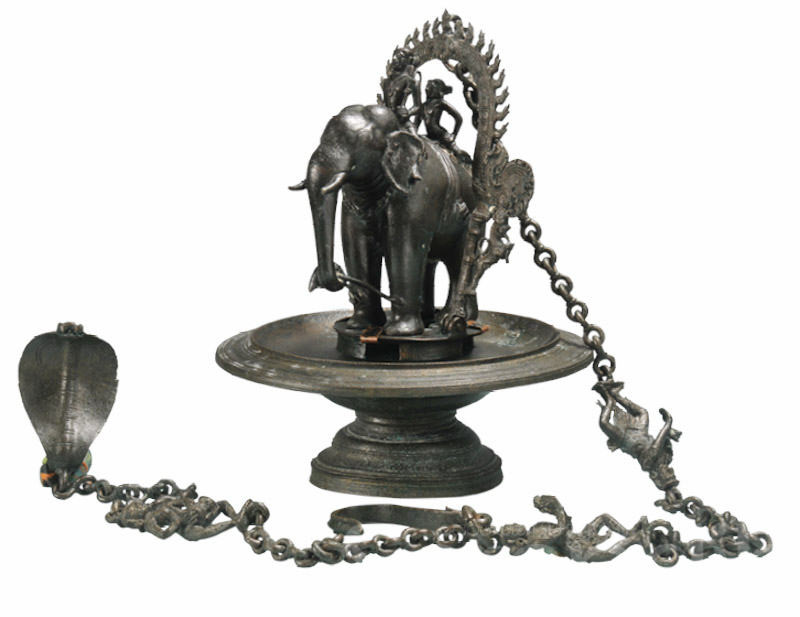 National Museum of Colombo - The oil lamp found in dadigama kotawehera- sri lanka